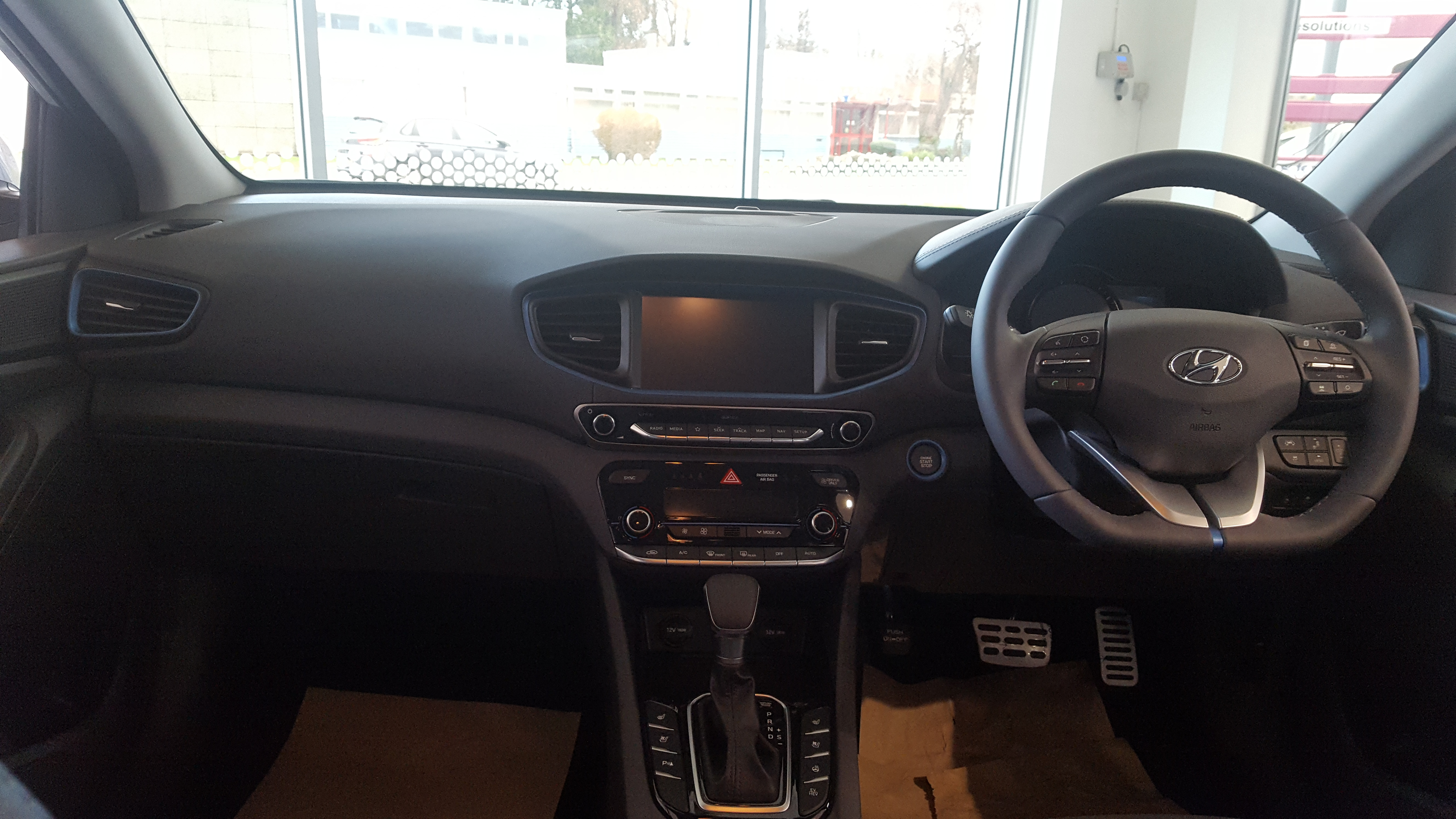 2018 Hyundai Ioniq Plug-In Interior Taken in Warwick